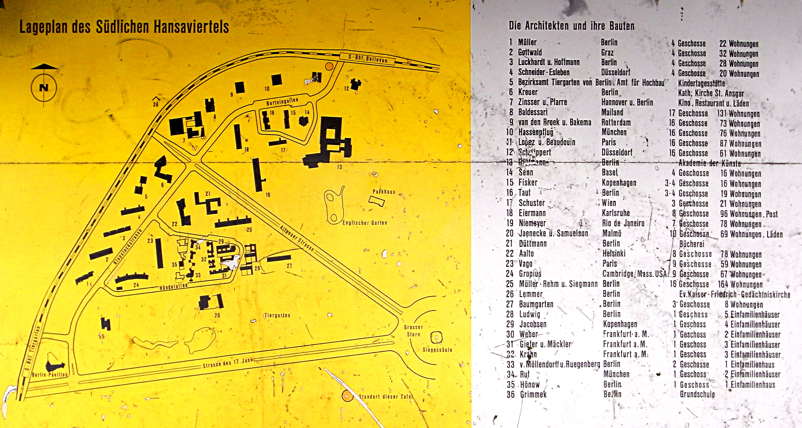 Map "Lageplan des Südlichen Hansaviertel" ("Plan of Southern Hansaviertel"), state of construction from 1960. This map is disposed at three different places within Südliches Hansaviertel; the reproduced plan is to be found in Bartingallee near Bellevue station, D-10557 Berlin-Hansaviertel.